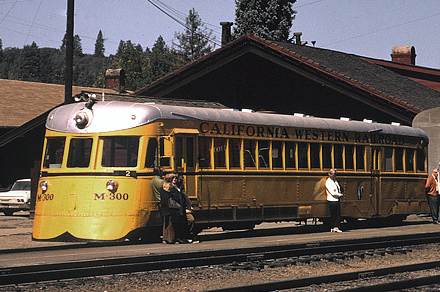 California Western Railroad. M300 at Willits depot.